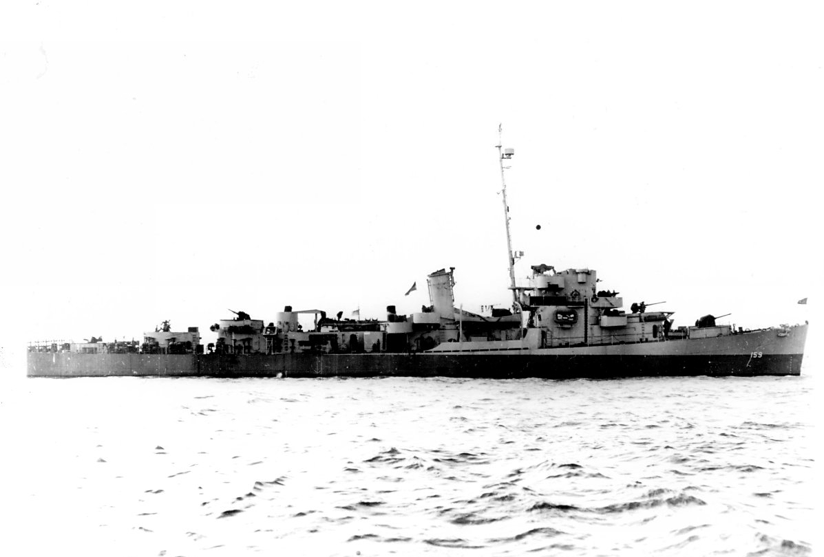 The U.S. Navy destroyer escort USS Laning (DE-159) off the New York Naval Shipyard (USA) on 10 March 1944.